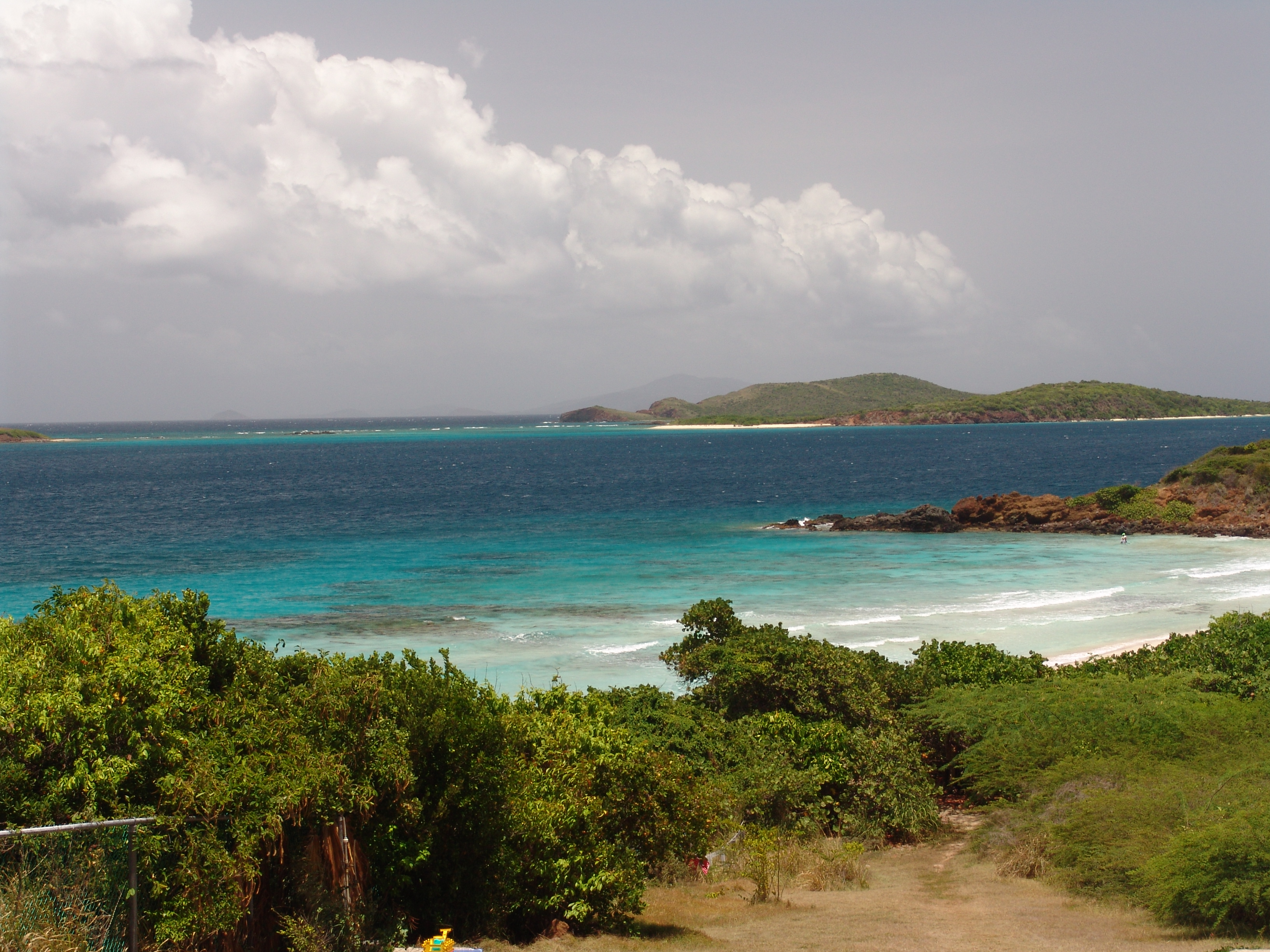 Considered one of the top 10 beaches in world.